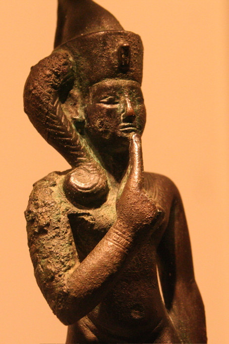 Photos from a 24 visit to London. Most of our time was in the British Museum, where we got to see the wonderful Chinese terra cotta army (no photos from that, though). Also saw a wonderfully fun play (39 Steps - no photos there either), and the £800M rennovation of St. Pancras (definitely photos).